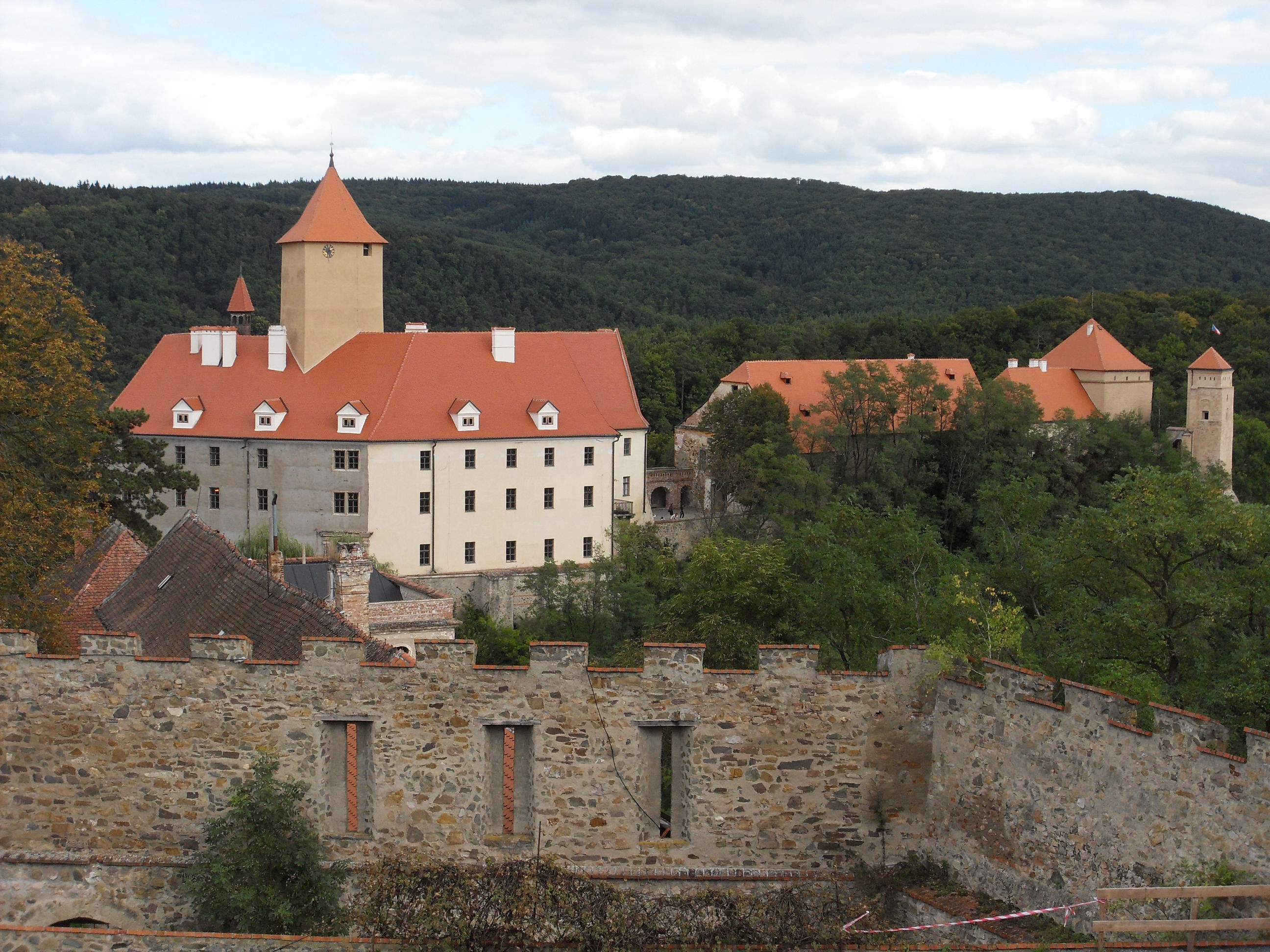 Veveří Castle, Brno, Czech Republic